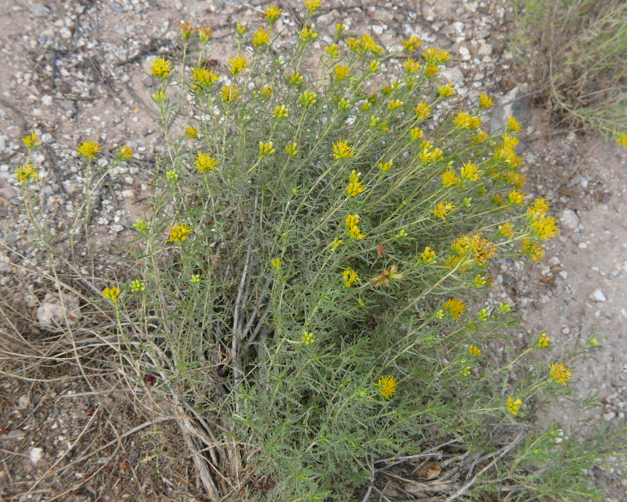 Burroweed (Isocoma tenuisecta), taken in Tucson, AZ 9/17/07